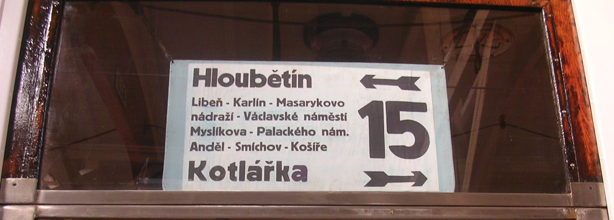 Střešovice, Prague, the Czech Republic. A tram line board.